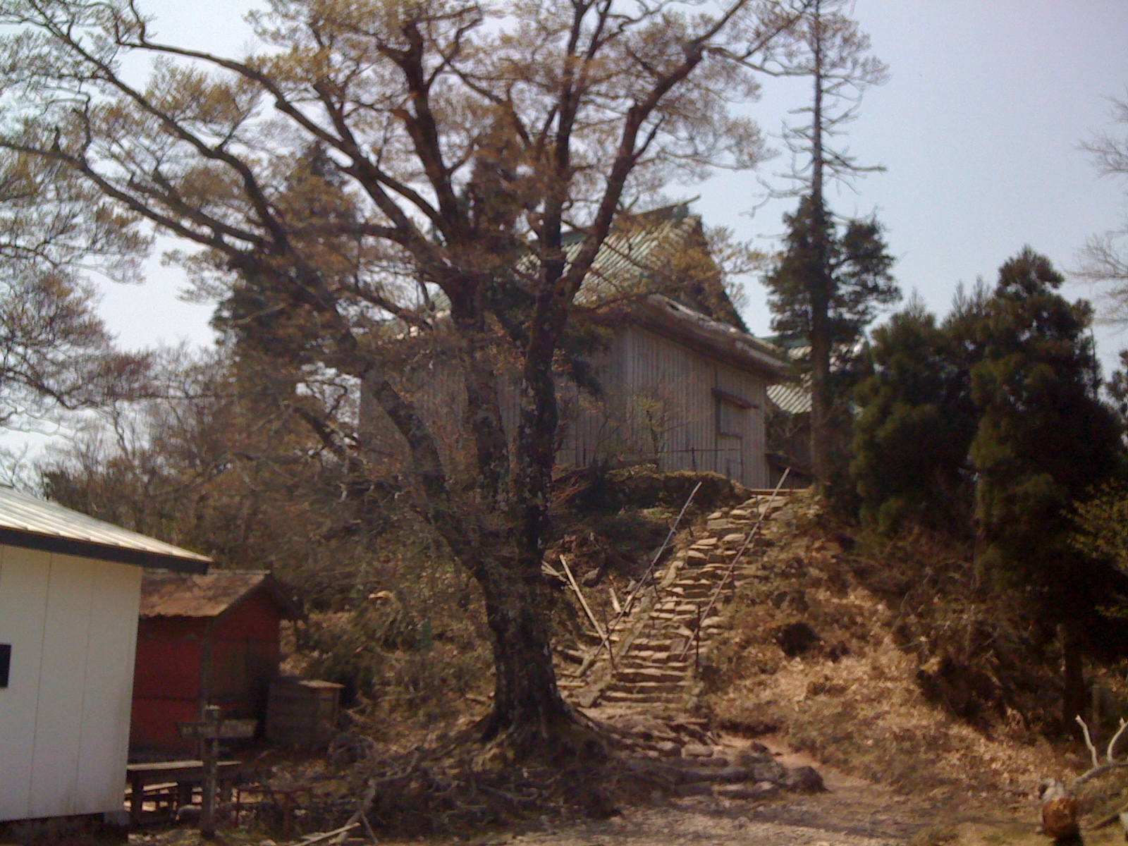 Mount Hiko (Hikosan) on the border of Fukuoka and Oita Prefectures, Japan